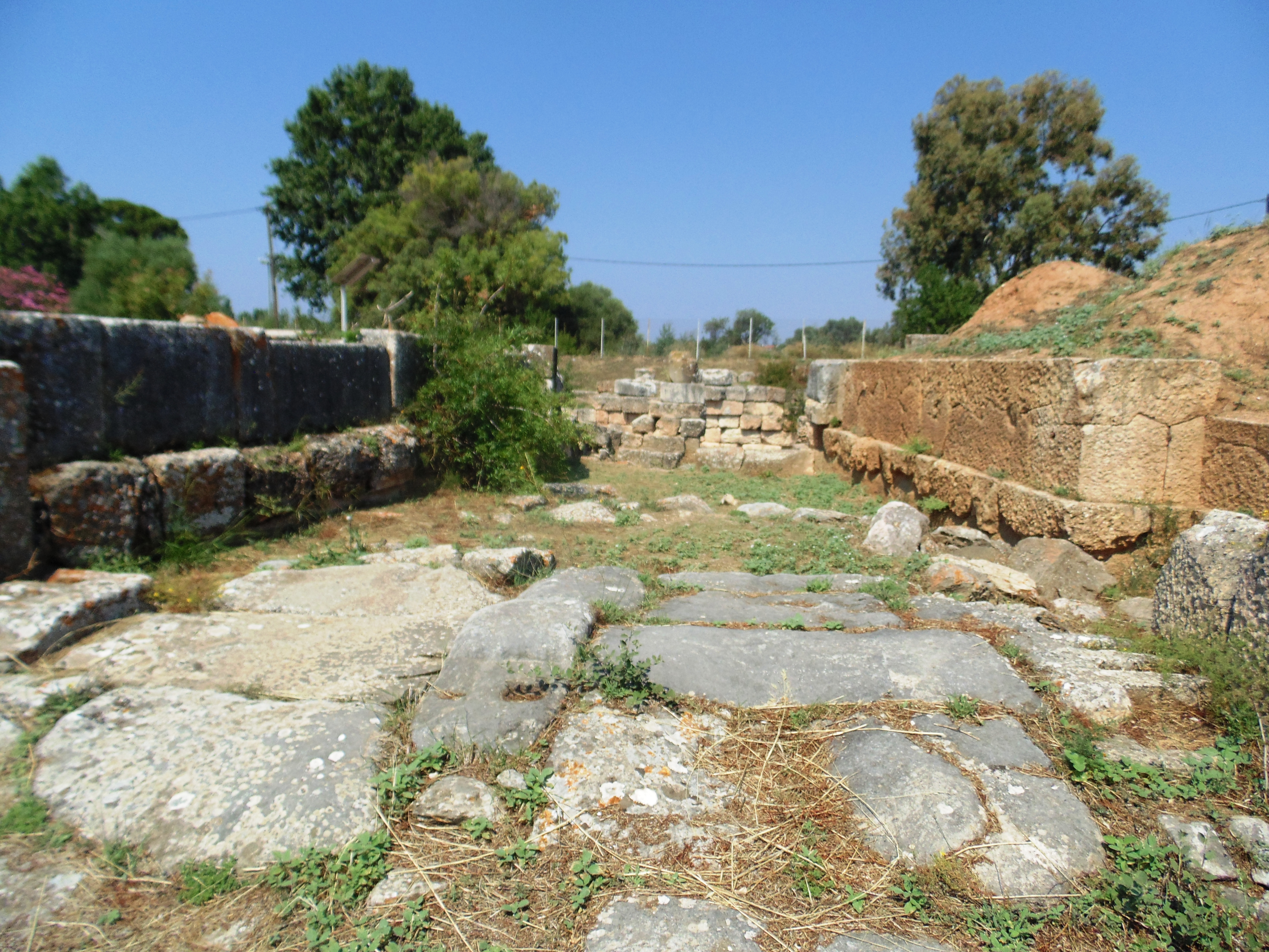 West Gate